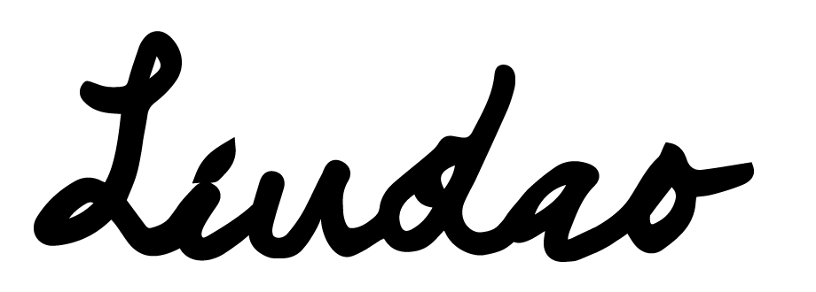 Signature of the Liu Dao Art Collective